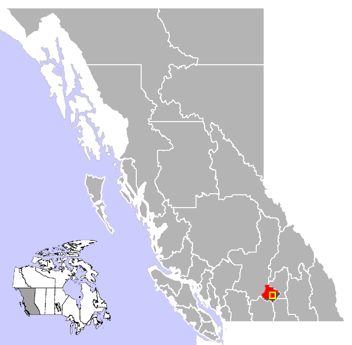 Location of Kelowna, Central Okanagan District, BC